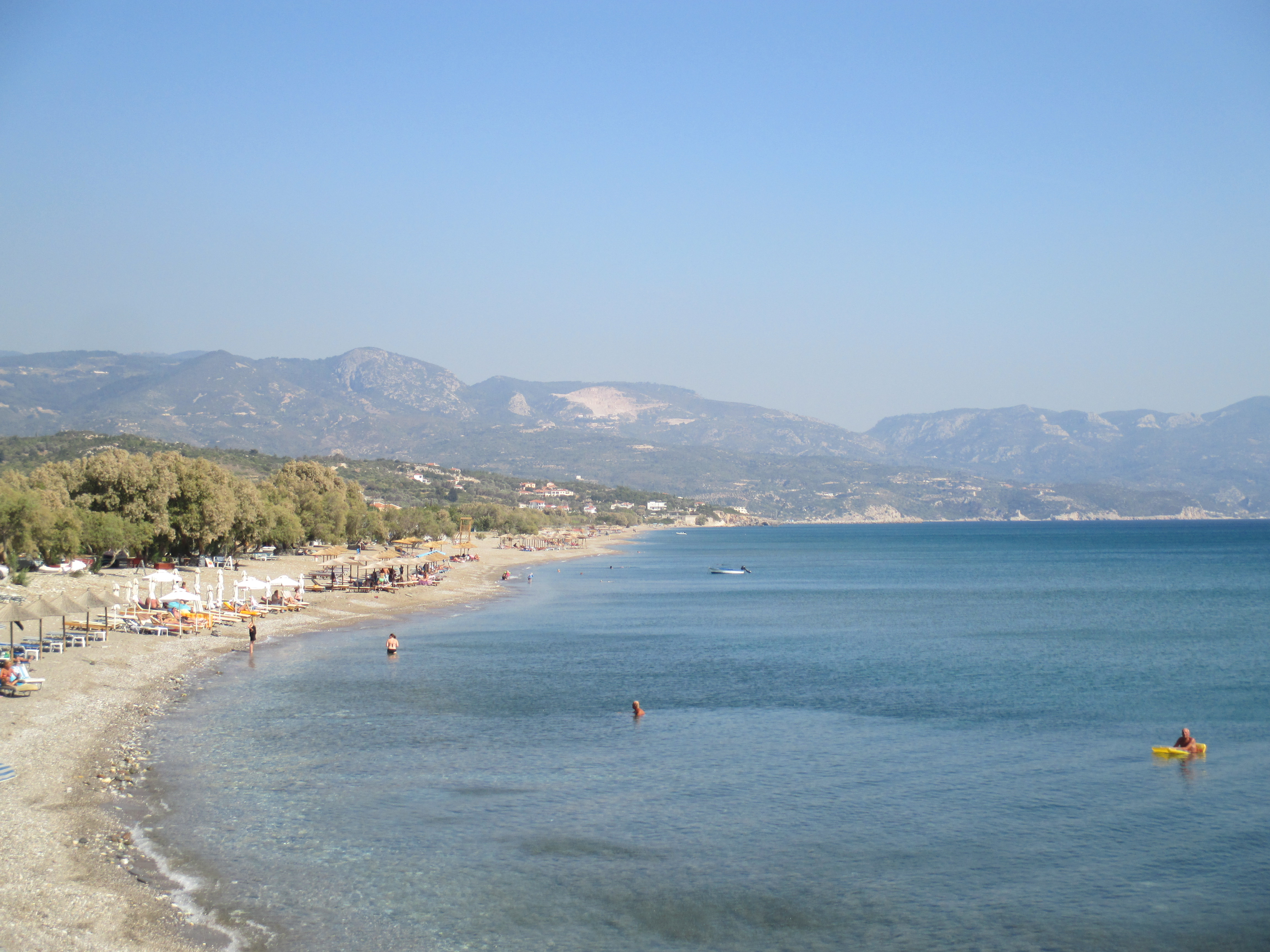 Kampos i.e. Votsalakia village, Samos, Greece.